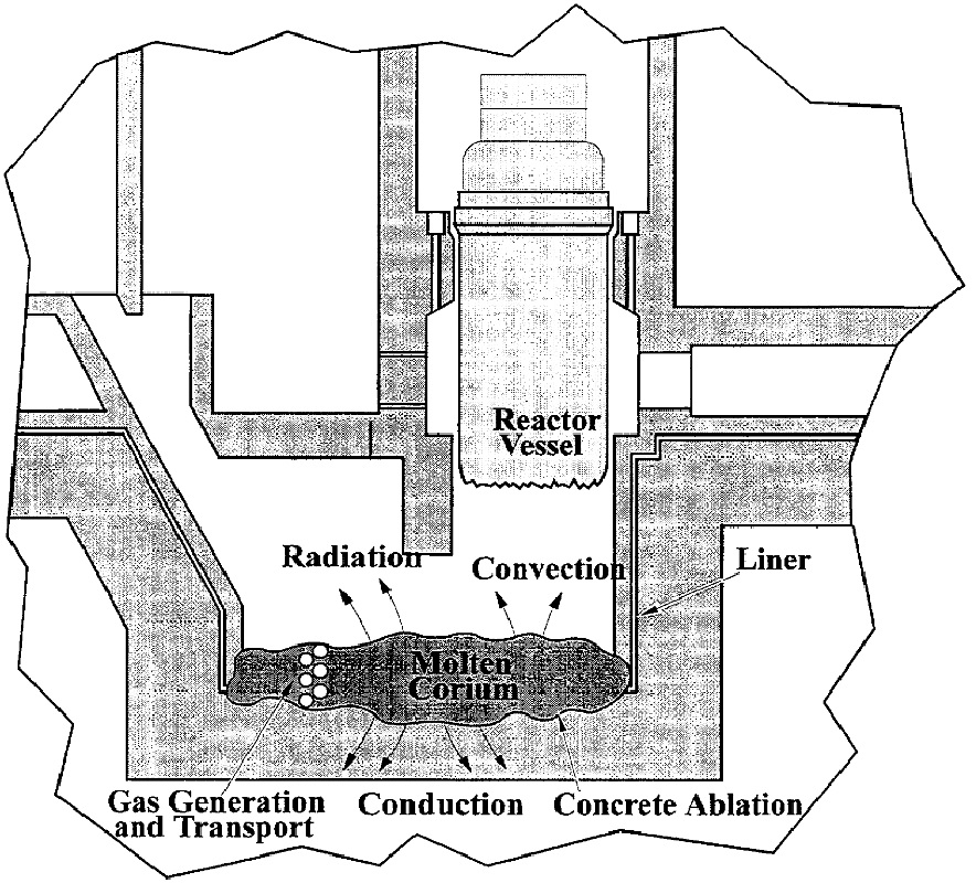 basemate attack after corium is released from the vessel